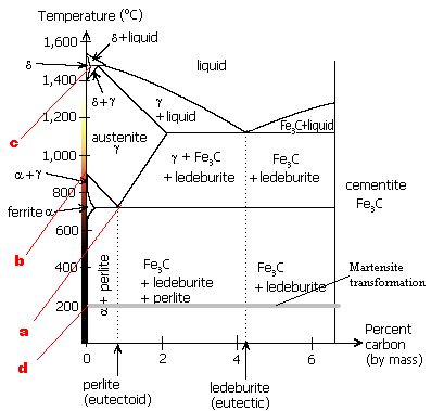 Phase diagram of the Carbon-Iron with Chernov's points shown. Based on Image:Phase diag iron carbon-color temp.png with the Chernov's points added by me, using description from [1]